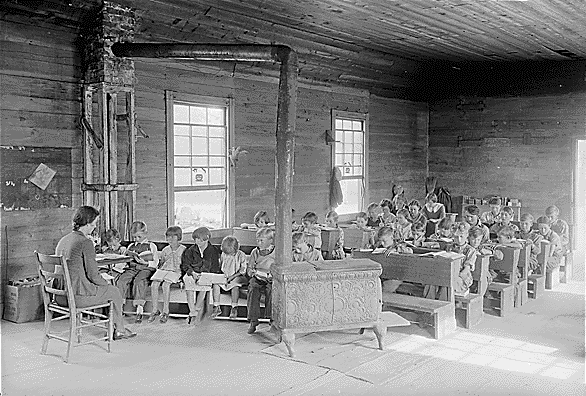 Class at the Oakdale School near Loyston, Tennessee, USA, photographed before Loyston was inundated by Norris Lake in the 1930s.